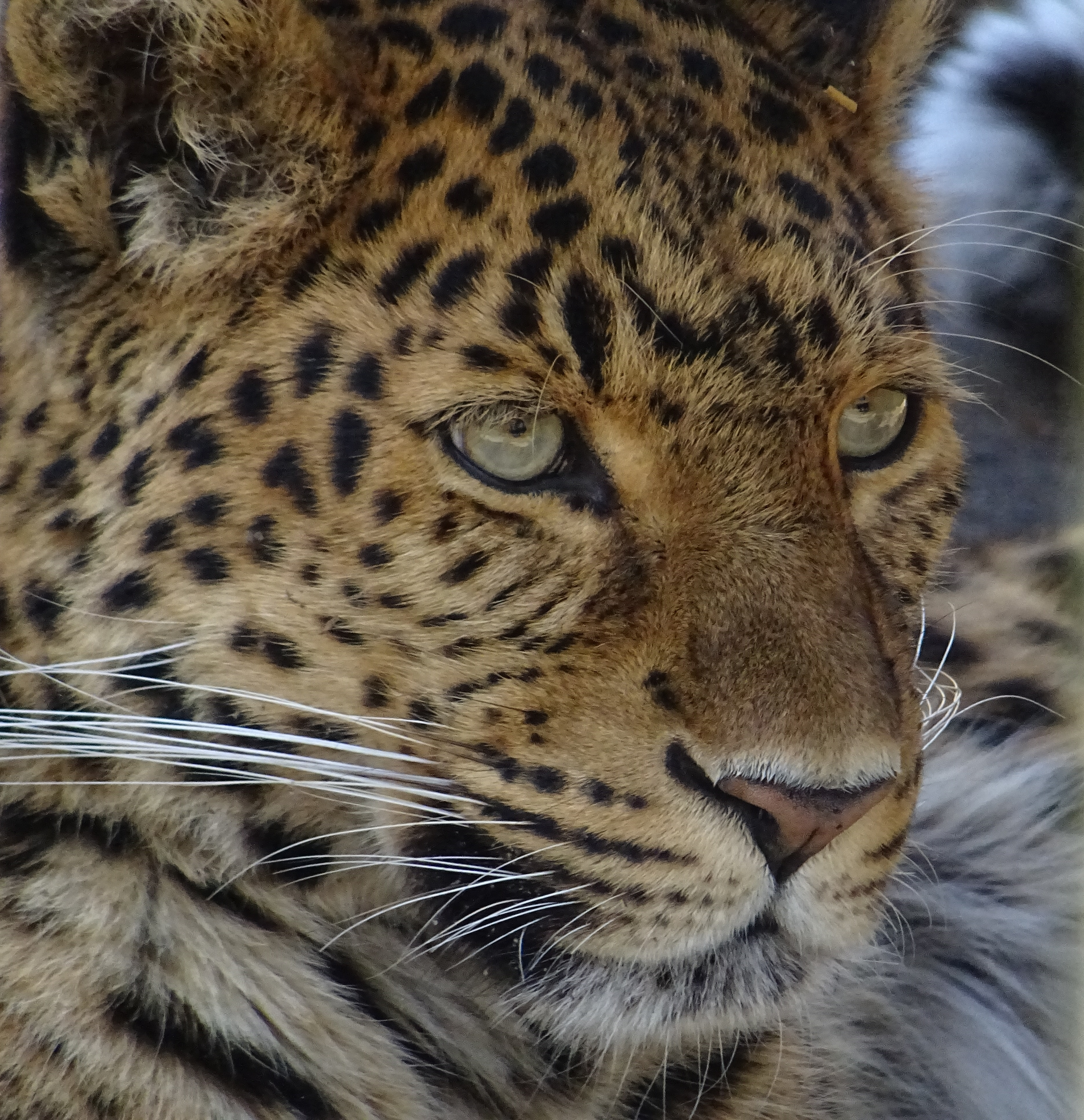 North China leopard (Panthera pardus japonensis) in Zoo Cottbus